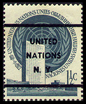 The only precancel of United Nations, New York office, 1,5 cents, 1951.